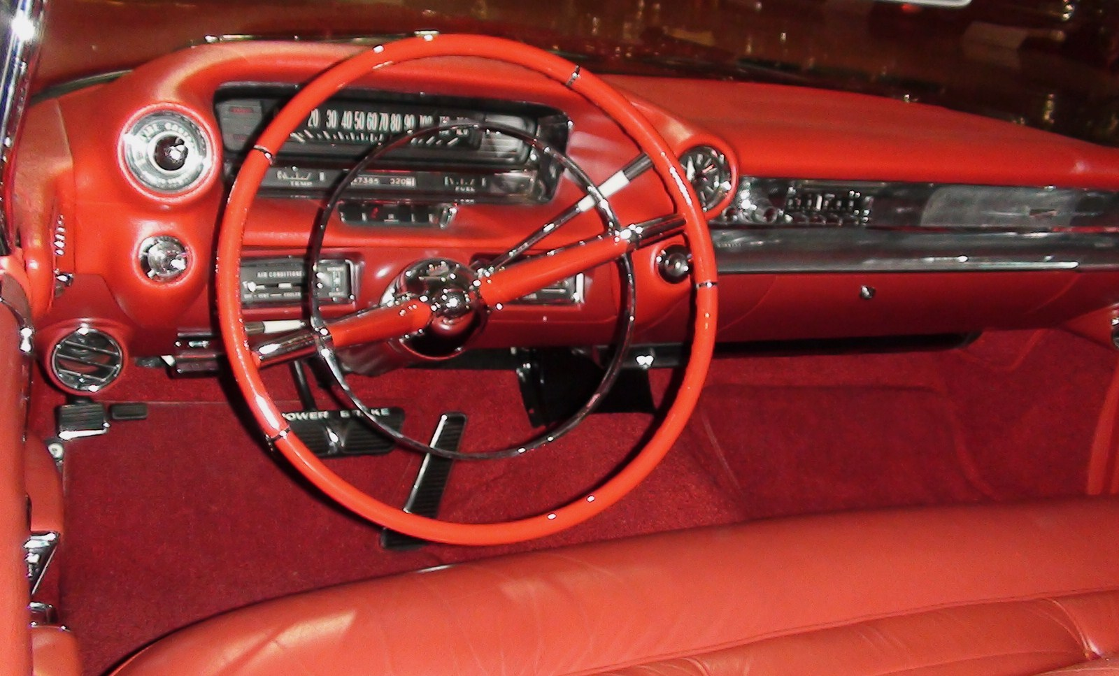 GM Heritage Center.